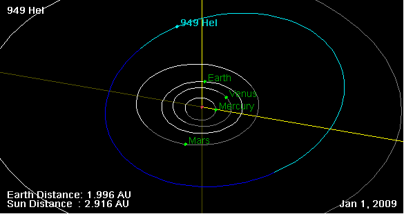 949 Hel orbit, and his position on 01 Jan 2009 (NASA Orbit Viewer applet)